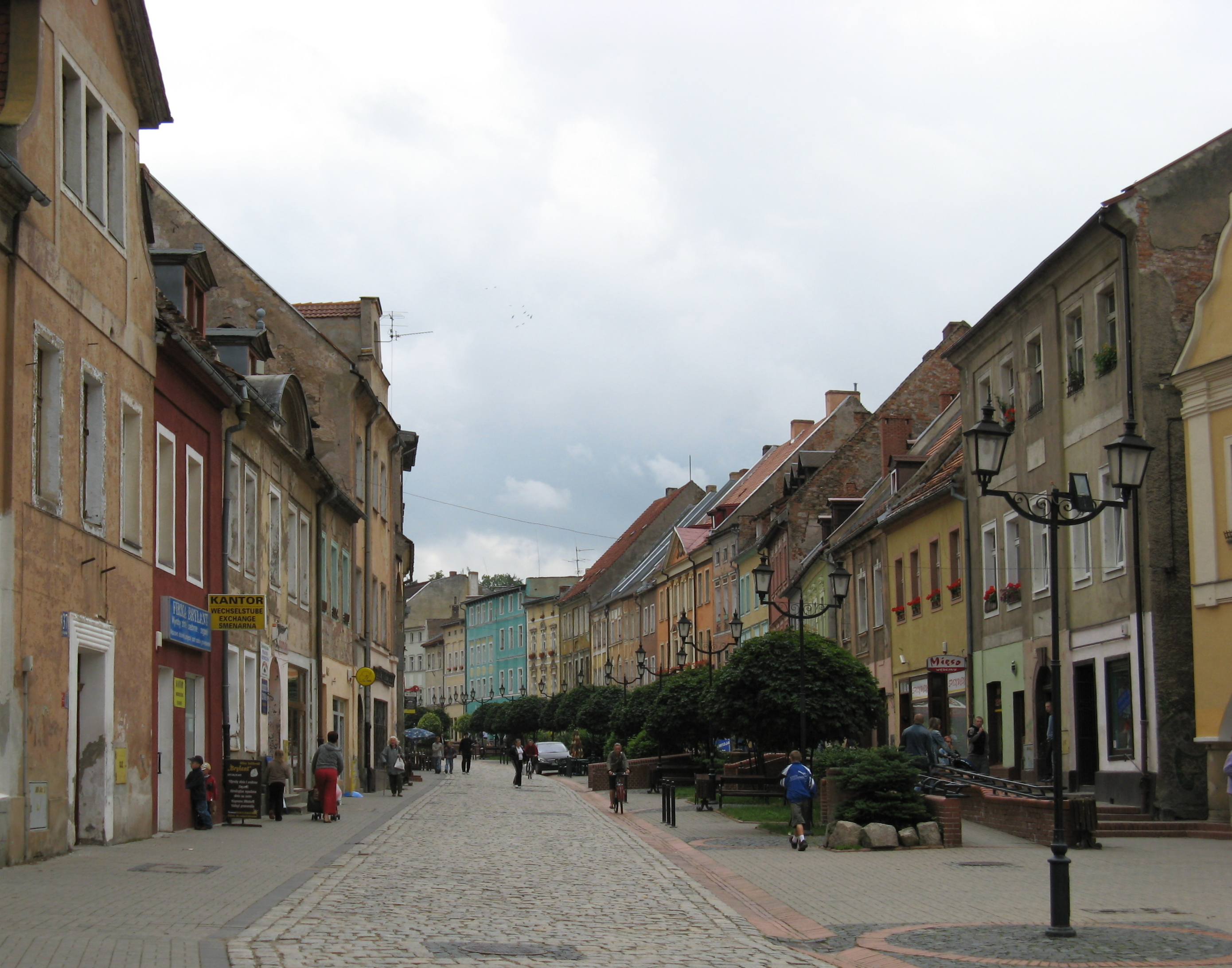 Kowary; 1st May Street (viewd from NW)